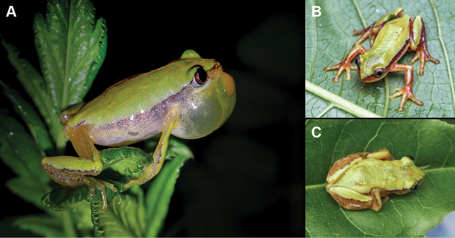 Afrixalus clarkei; calling male (A), frontal view of male (B), dorsal view of female (C).